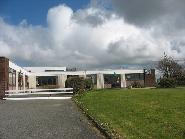 Ysgol y Tywyn Primary School, RAF Valley The campus of this LEA run school is located within the Domestic Site of RAF Valley